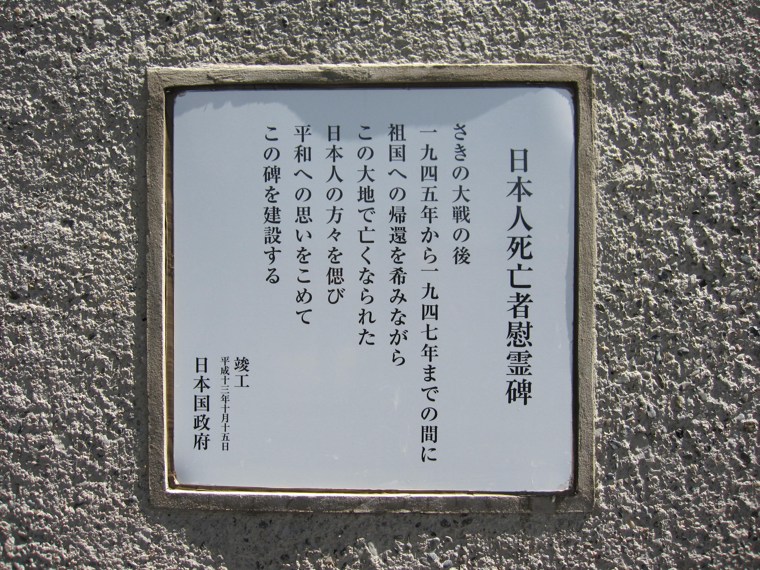 Memorial for Japanese soldiers in Ulaanbaatar